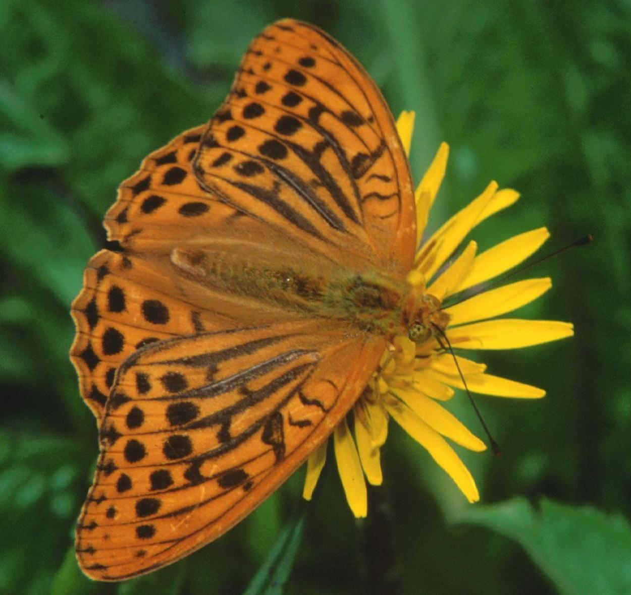 Argynnis paphia on Taraxacum, in Mount Hiuchi, Kubiki Mountains, Japan.